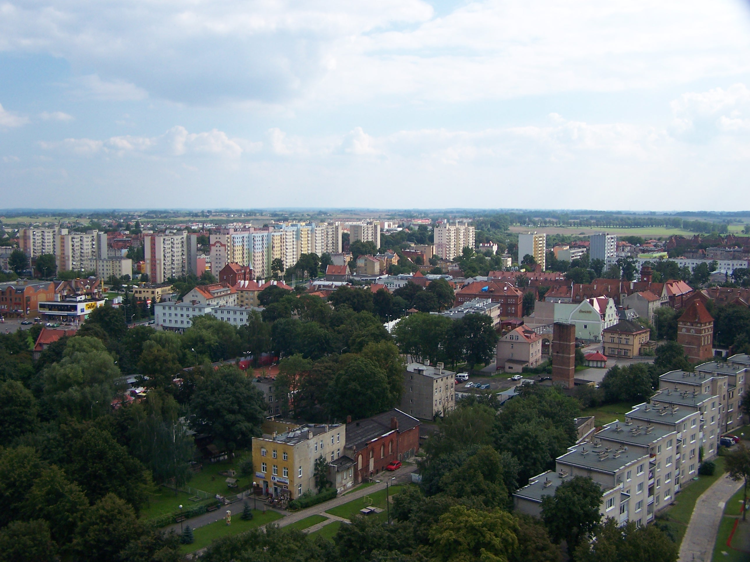 The post-war buildings of Malbork as seen from the Marienburg Castle high tower.